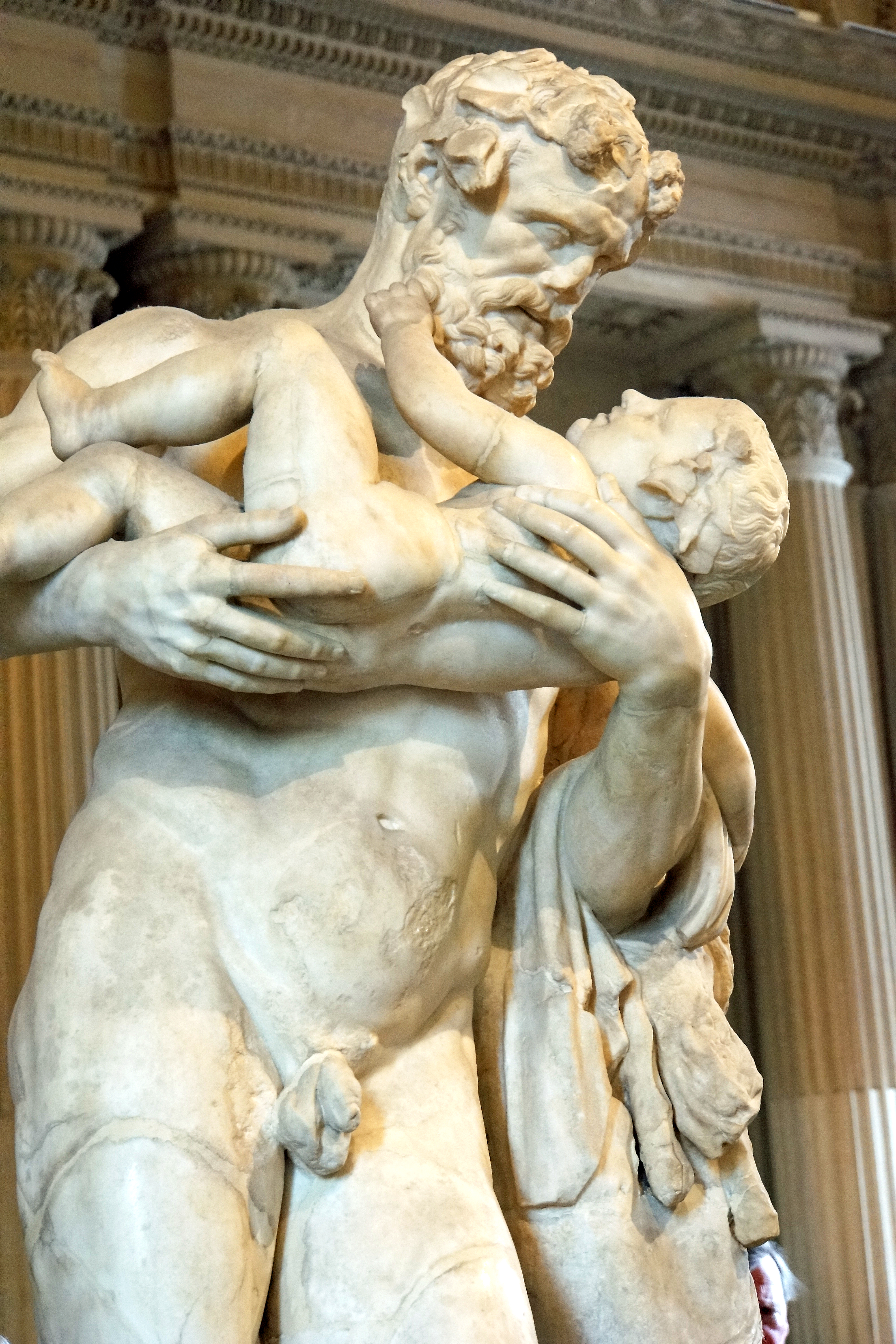 PLEASE, NO invitations or self promotions, THEY WILL BE DELETED. My photos are FREE to use, just give me credit and it would be nice if you let me know, thanks. Silene carrying Dionysus (Bacchus), marble from c. 150-300 or Roman Imperial Period, discovered in the gardens of Salluste in Rome. Note: Silene or Silenus was ordered by Zeus to save his son Bacchus from the ire of Hera. Silenus was a companion and tutor to the wine god Dionysus. Hera tried to persecute Dionysos, one of the favourite bastard sons of Zeus.